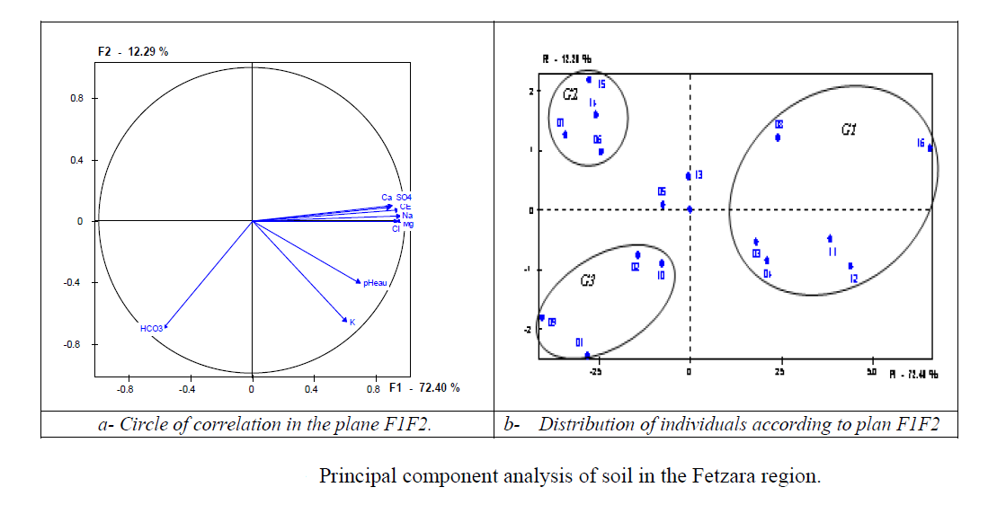 Principal component analysis of soil in the Fetzara region